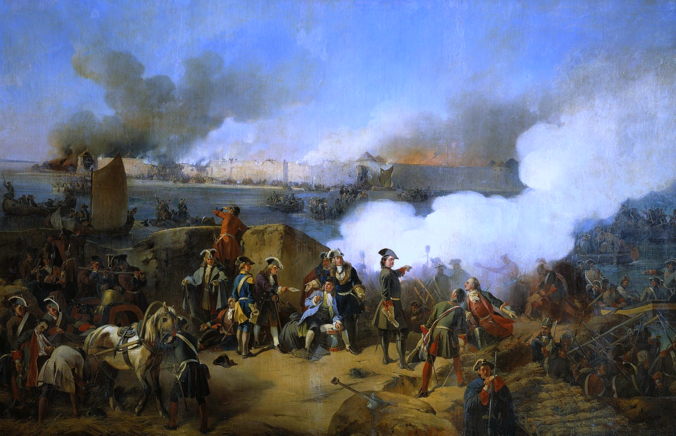 Siege of Nöteborg (1702)